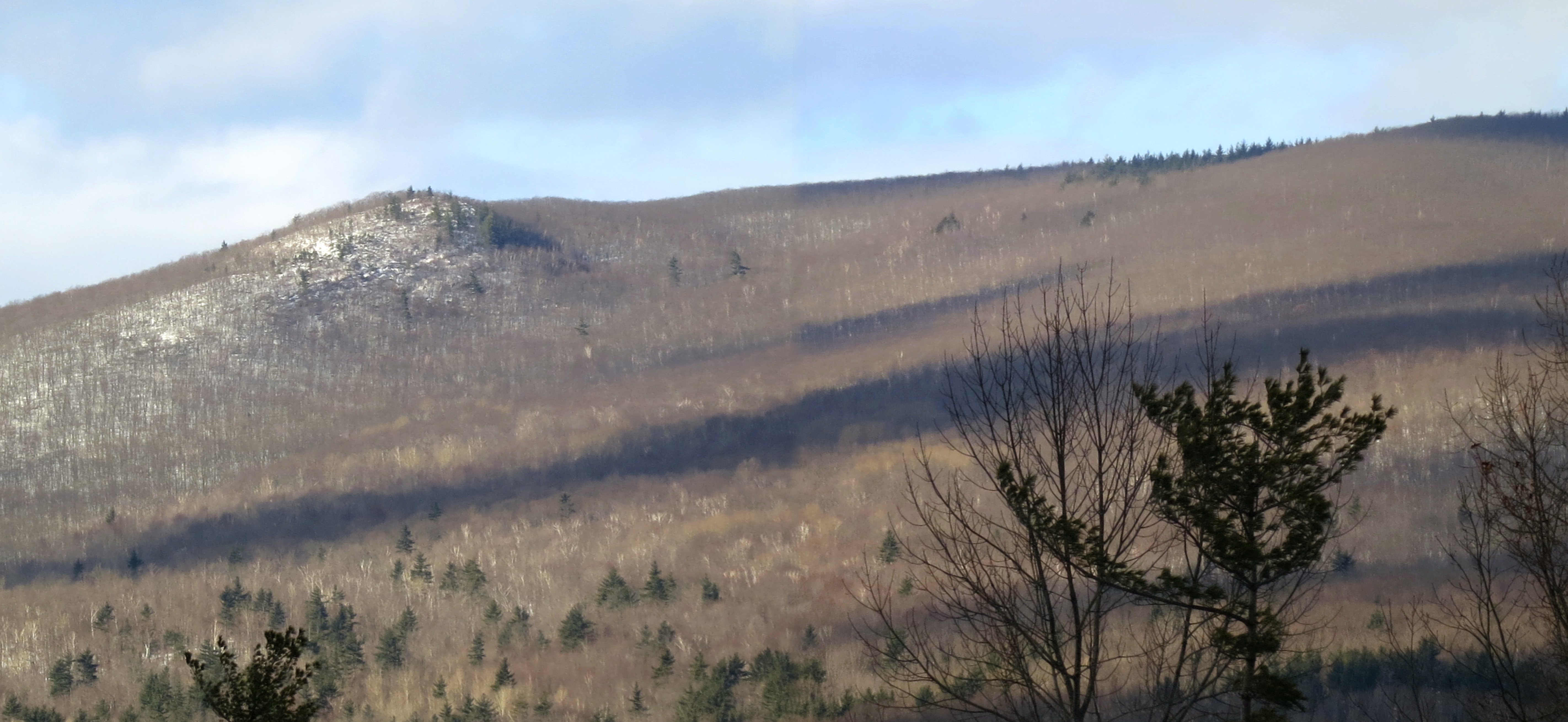 View from State Road, North Adams